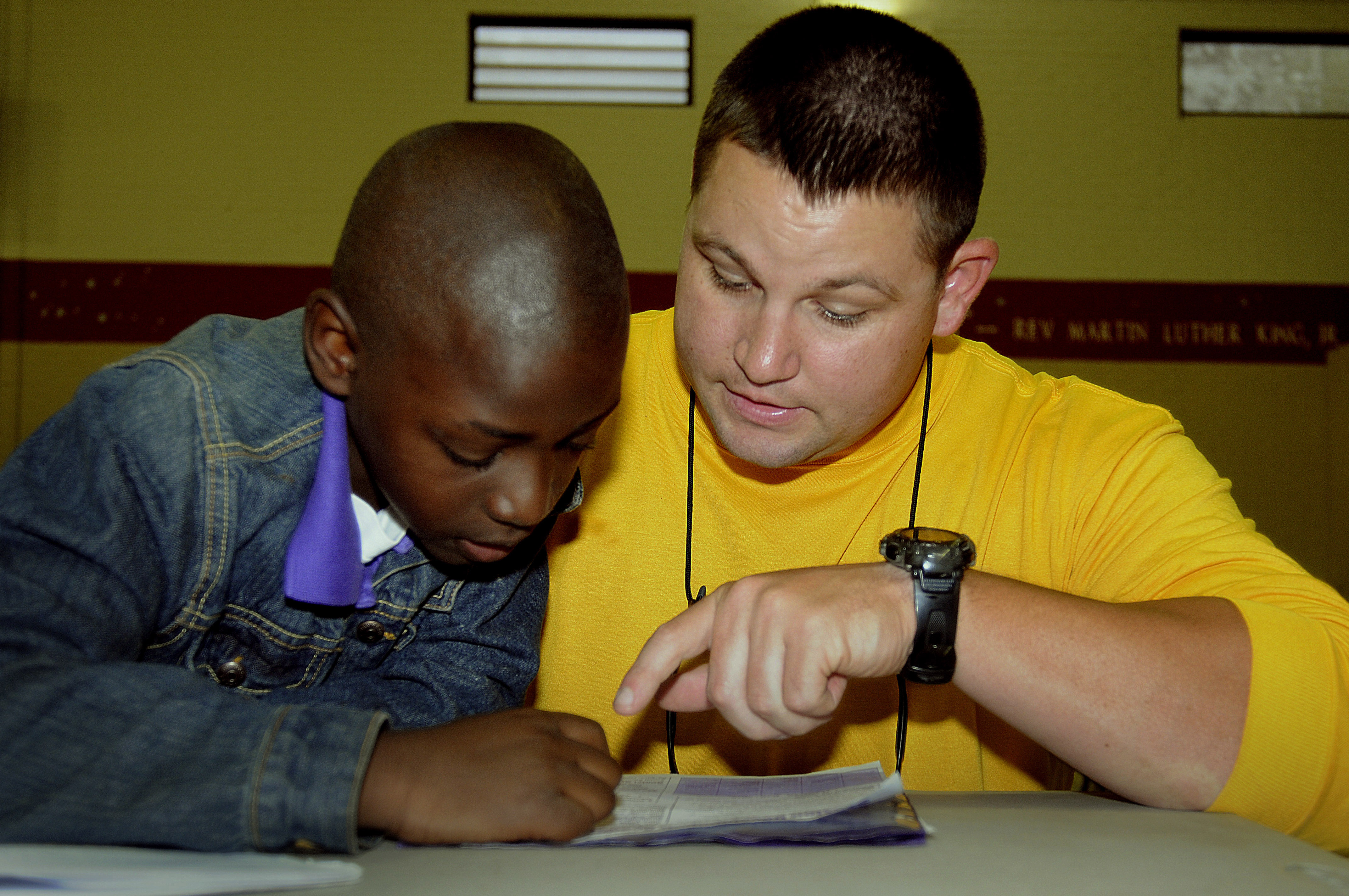 CHARLESTON, S.C. (April 15, 2010) Master-at-Arms 2nd Class Nicholas Green, from Logan, Ohio, helps a child with his homework during a Charleston Navy Week community outreach event at the downtown Charleston YMCA. Sailors from Naval Weapons Station Charleston tutored and played with the children. Charleston Navy Week is one of 20 Navy Weeks planned across America in 2010 to show Americans the investment they have made in their Navy. (U.S. Navy photo by Mass Communication Specialist 1st Class Jennifer R. Hudson/released)